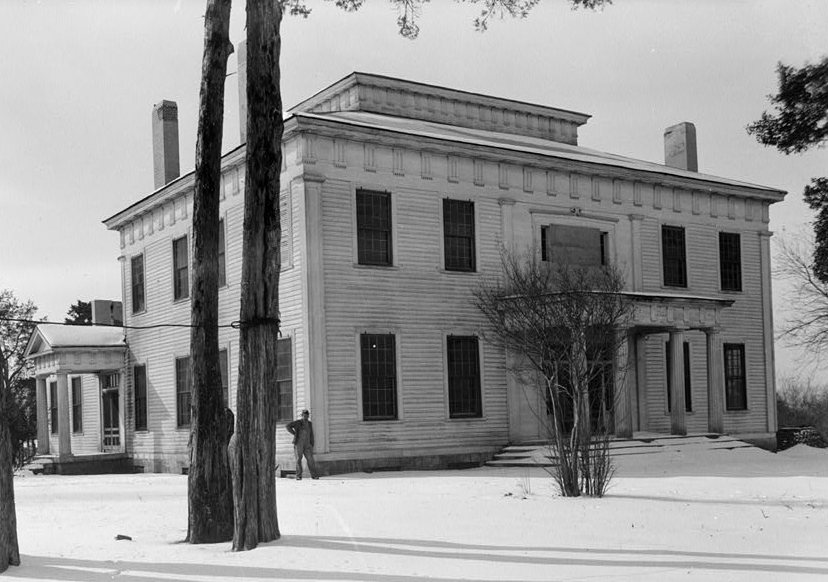 Cunningham Plantation (Barton Hall), Old Memphis Road (Gaines Trace Road), Cherokee vicinity, Colbert County, AL. FRONT AND SIDE VIEW N.E. Image courtesy of Historic American Buildings Survey—HABS.